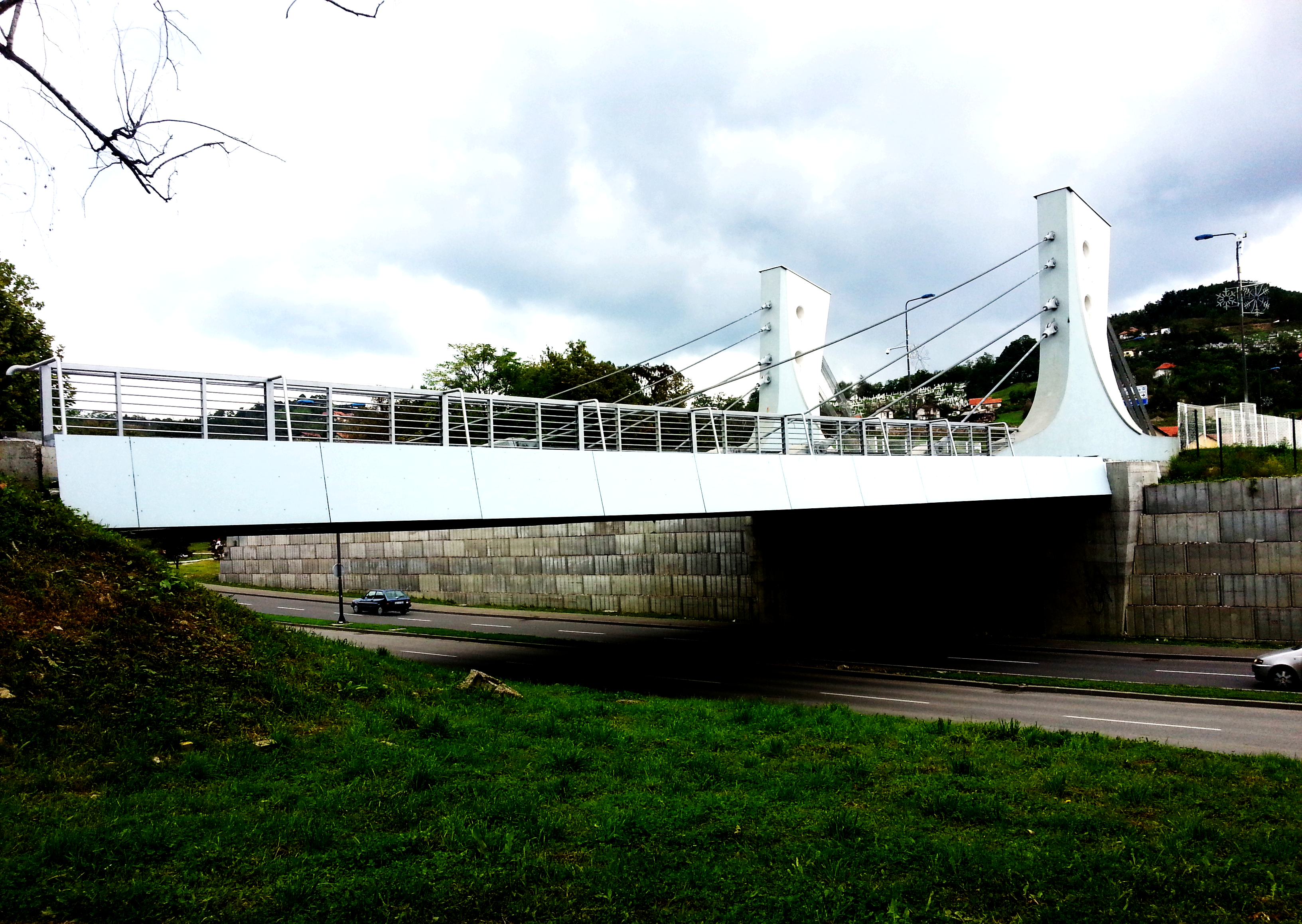 Little bridge that indicates the crossing from the area Trg Slobode to the Panonnian lakes..